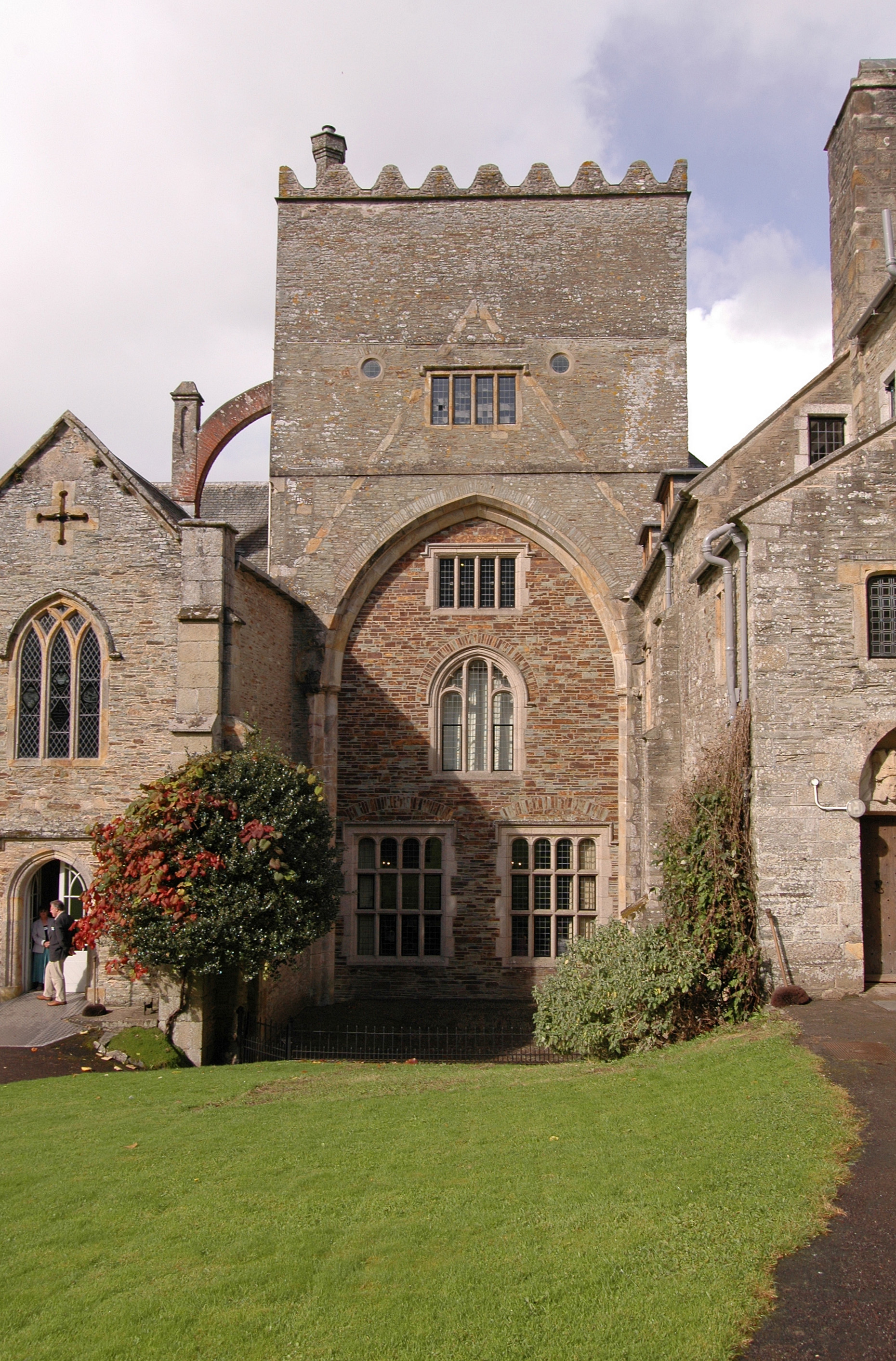 View of the southern side of the tower at Buckland Abbey, Devon, UK.